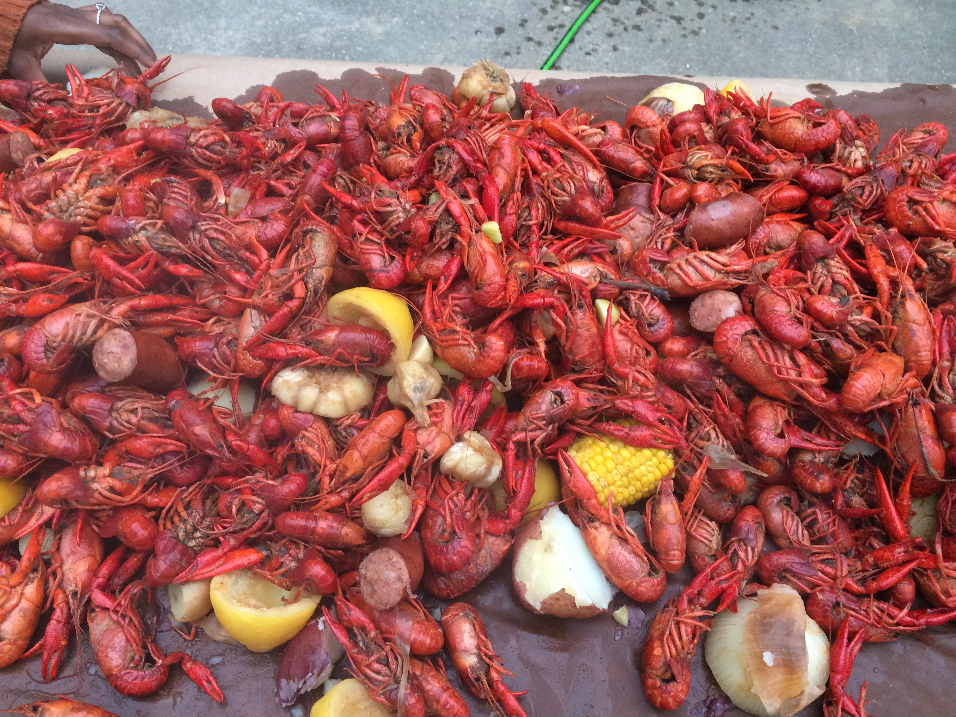 Boiled crawfish